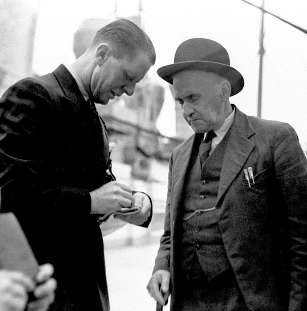 Cricket player Alan Kippax, returning with the NSW XI on the liner Orontes, signs an autograph